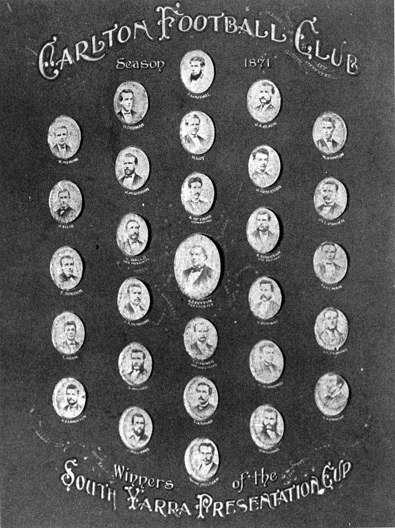 Players of Carlton FC, the text says "Season 1871 - Winners of the South Yarra Presentation Cup". From left to right top row; W. 'Bill' Newing, W. Dedman, F. Goodall, J. A. Clark (J. E. Clarke?), W. Johnson*. J. Ellis, J. MacGibbon, H. Guy, J. Robertson, O. T. L. O'Brien. J. Dobson*, J. Walls (Vice president), A. McHarg (Committee), W. Robertson (Vice president), F. Gillman*. T. Aram*, J. A. Donovan, G. Coppin (President), J. Conway, J. S. Dismorr? Harry Bannister, S. Wallace, T. P. Power (Sec/Treasurer), A. Blanchard, G. Kennedy. J. Williams, T. Gorman, W. Williams. Frank Hillsden.